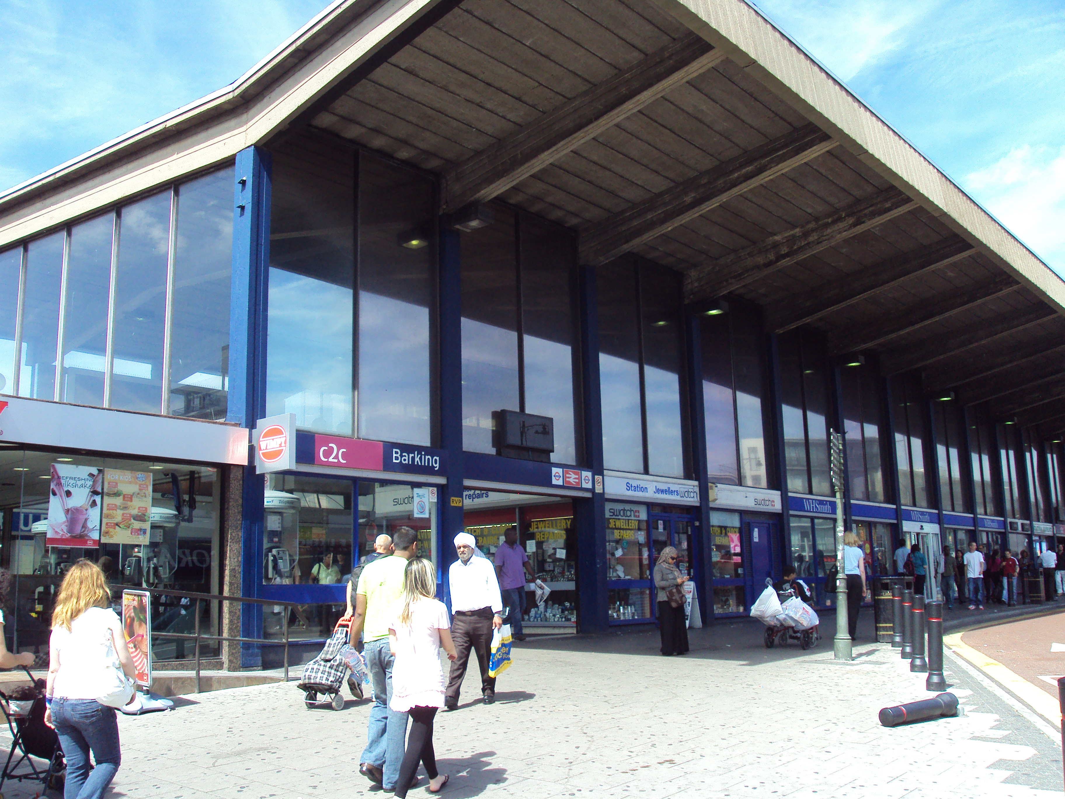 Frontage of Barking railway station, Station Parade, Barking, east London. Grade II listed building.